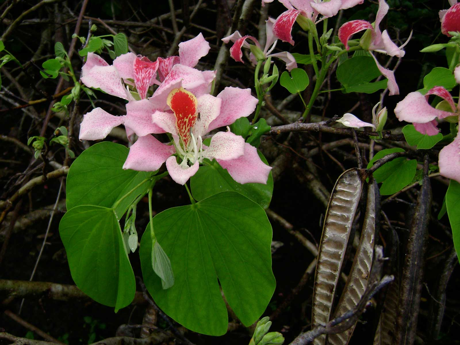 Bauhinia monandra; {fehi} in Tonga; leaves, flowers, pods